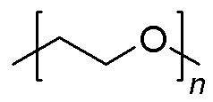 Selfmade with ChemDraw